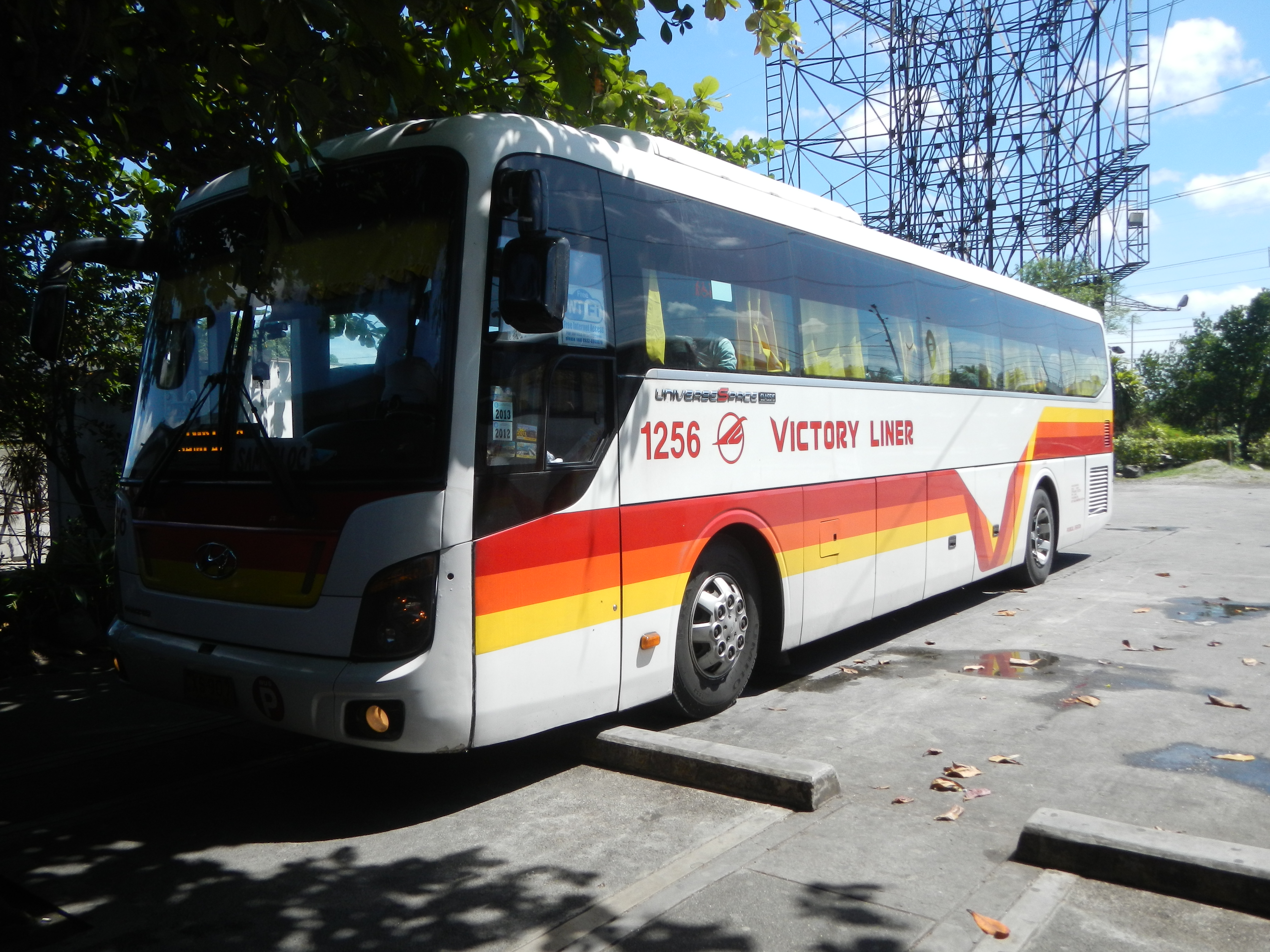 Double Happiness restaurant and bus stop in Barangay San Roque, Lubao, Pampanga along Olongapo-Gapan road. ►